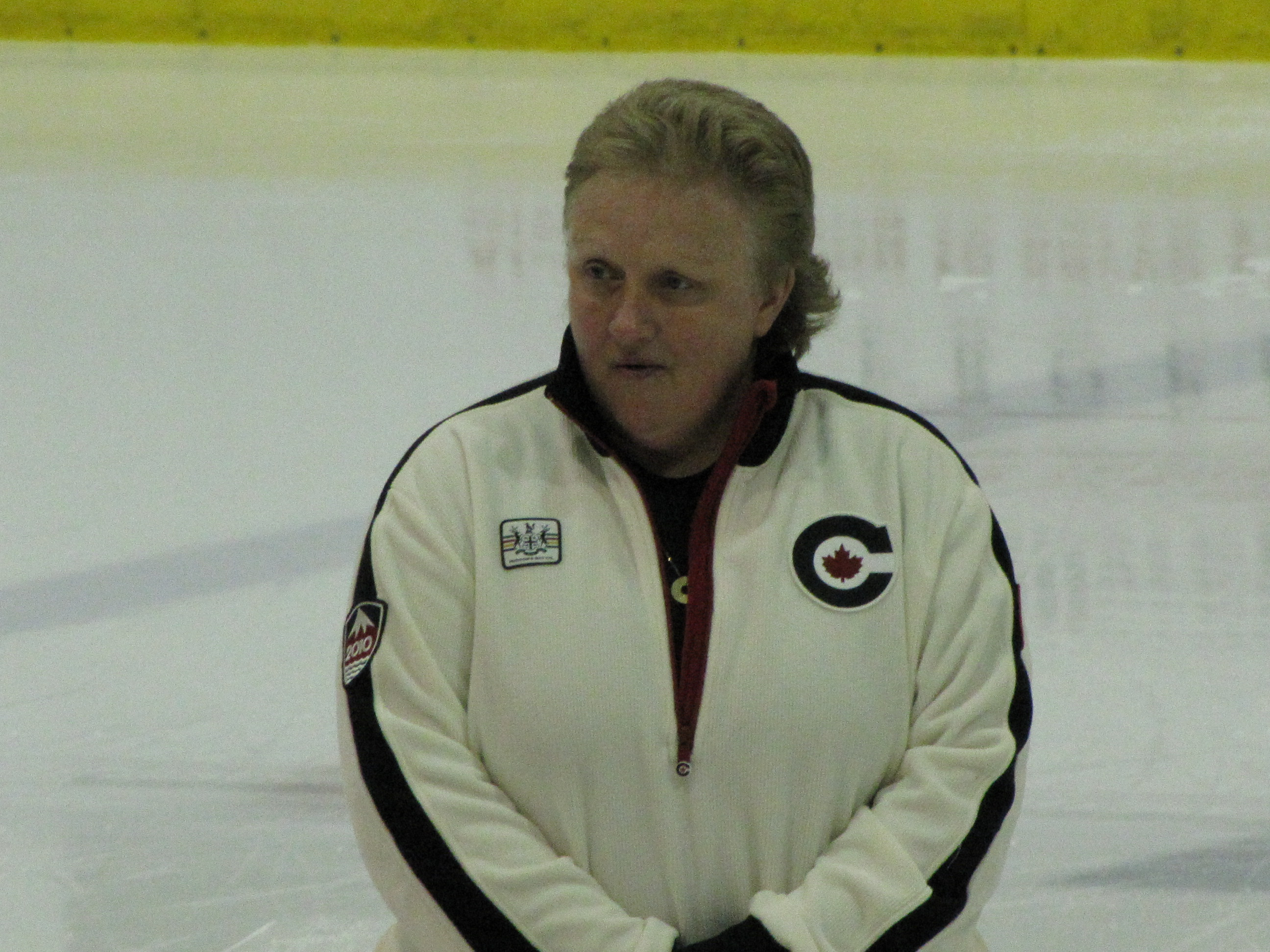 Team Canada coach Melody Davidson at the Laurier Golden Hawks VS St Francis Xavier X-Women in March 12 2010)